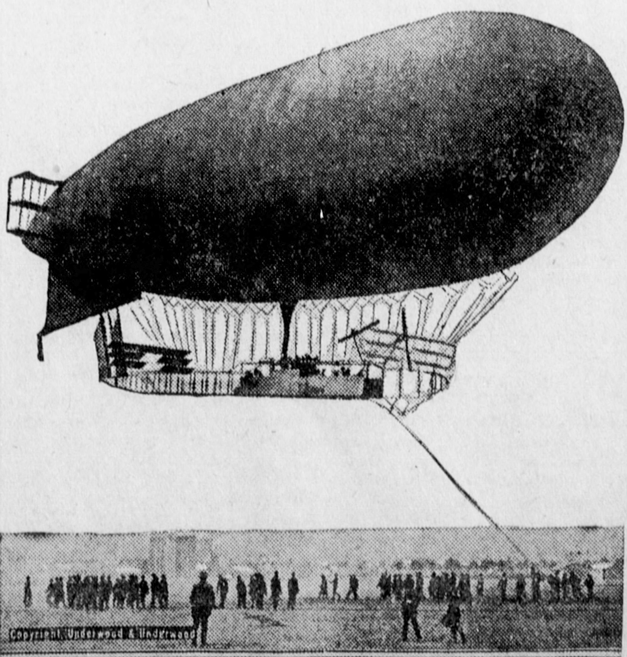 Original caption: One of France's giant dirigibles.